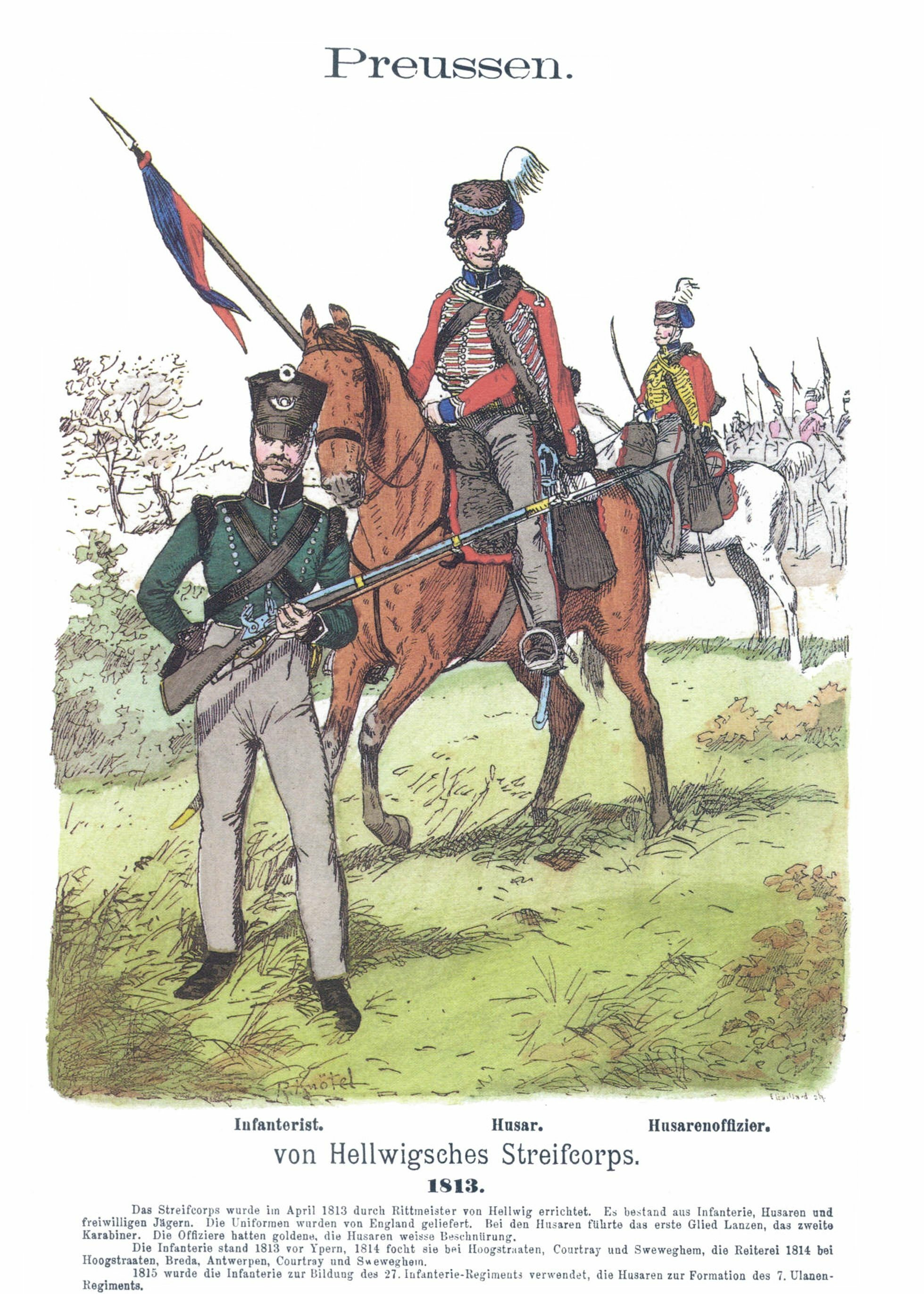 Preußen: von Hellwigsches Streifcorps. 1813